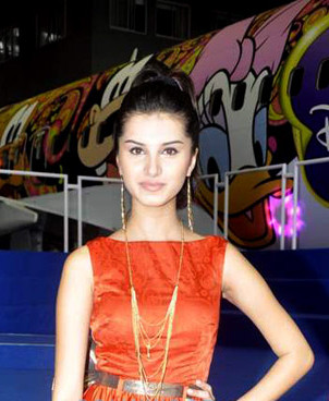 Tara Sutaria at Shantanu Nikhil's kids fashion show with Disney Channel